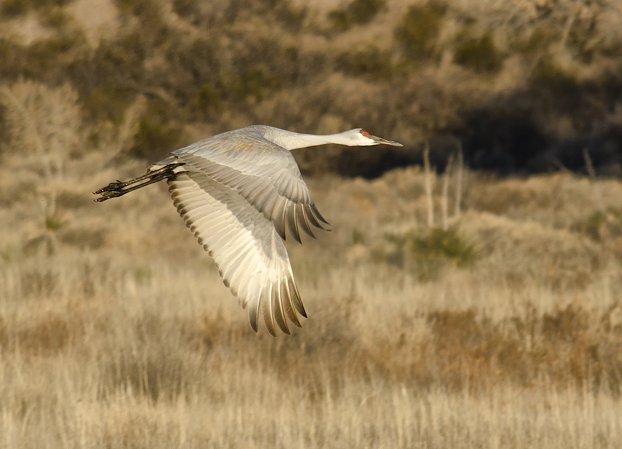 I've got about a hundred shots of cranes and geese that I shot last January at Bosque del Apache. They're just patiently waiting for me to do something with them.